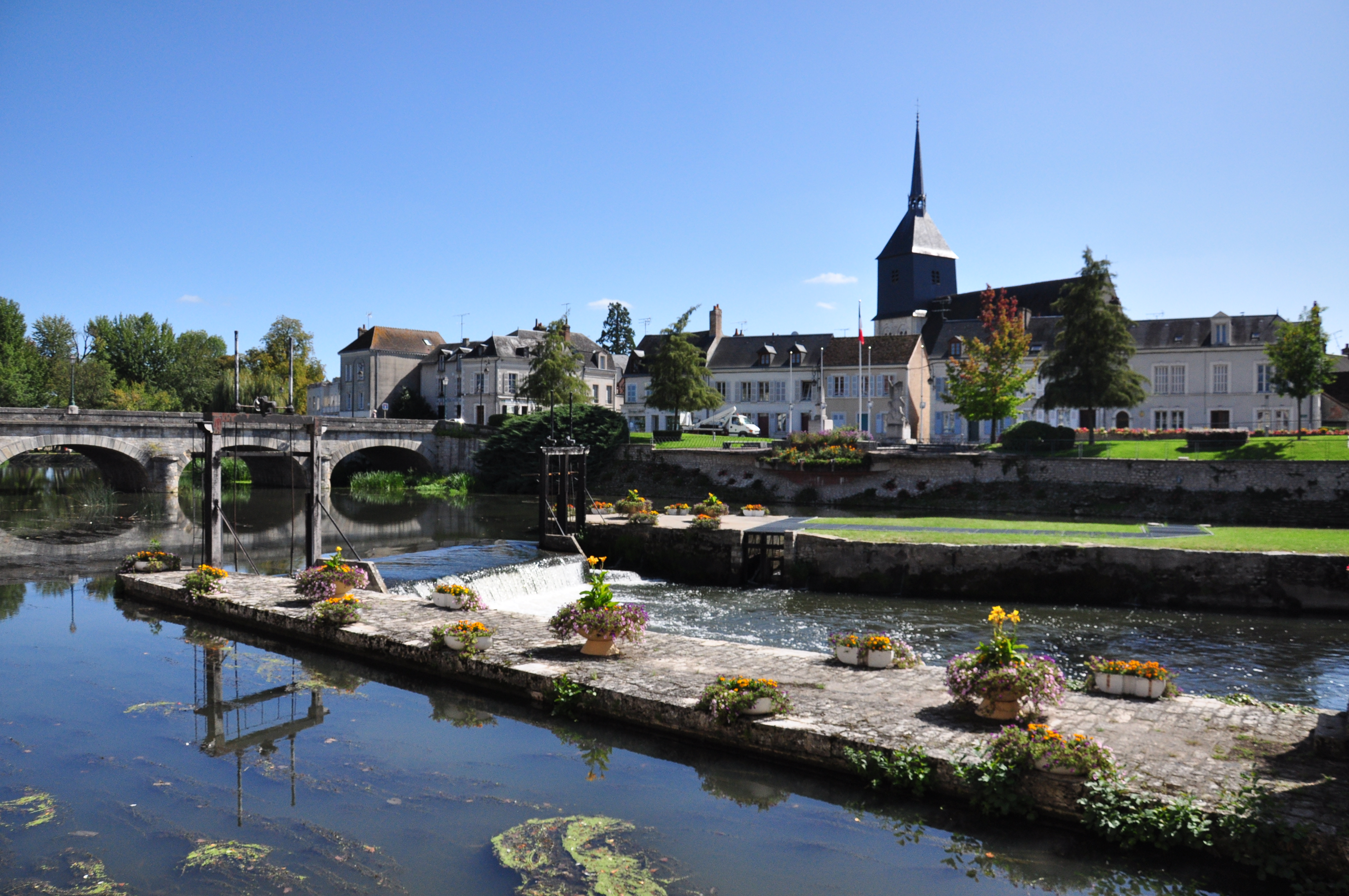 Le centre ville et la Sauldre